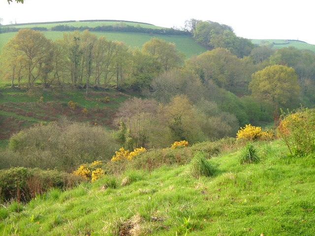 Alphington Woods. View from the bridleway that continues Cutteridge Lane, just south of the bridge over the A30. Woods and fields occupy a steep side valley of the Alphin Brook valley below Westwood Farm.